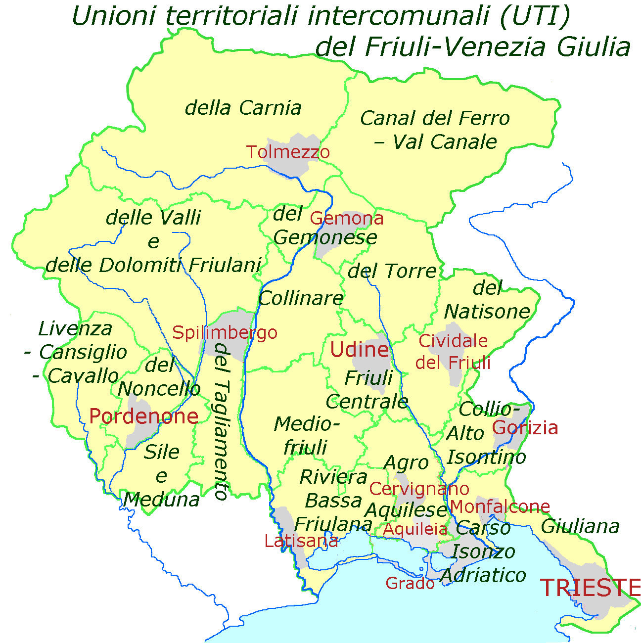 Map of Friuli-Venezia Giulia with the new subdivisions "Unioni territoriali intercomunali", estabished in the beginning of 2018 This map may be incomplete, and may contain errors. Don't rely solely on it for navigation.